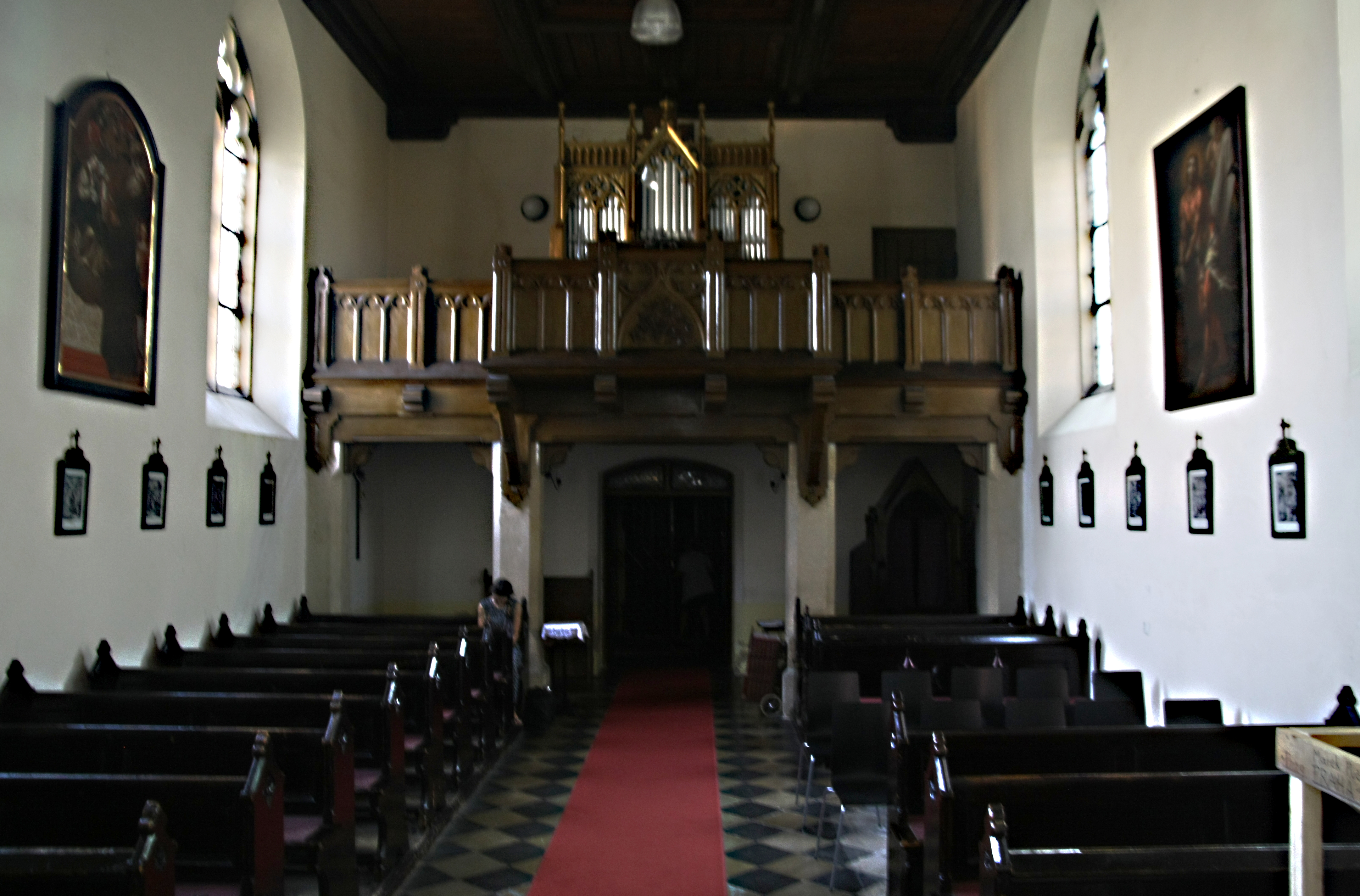 Pohled do lodi